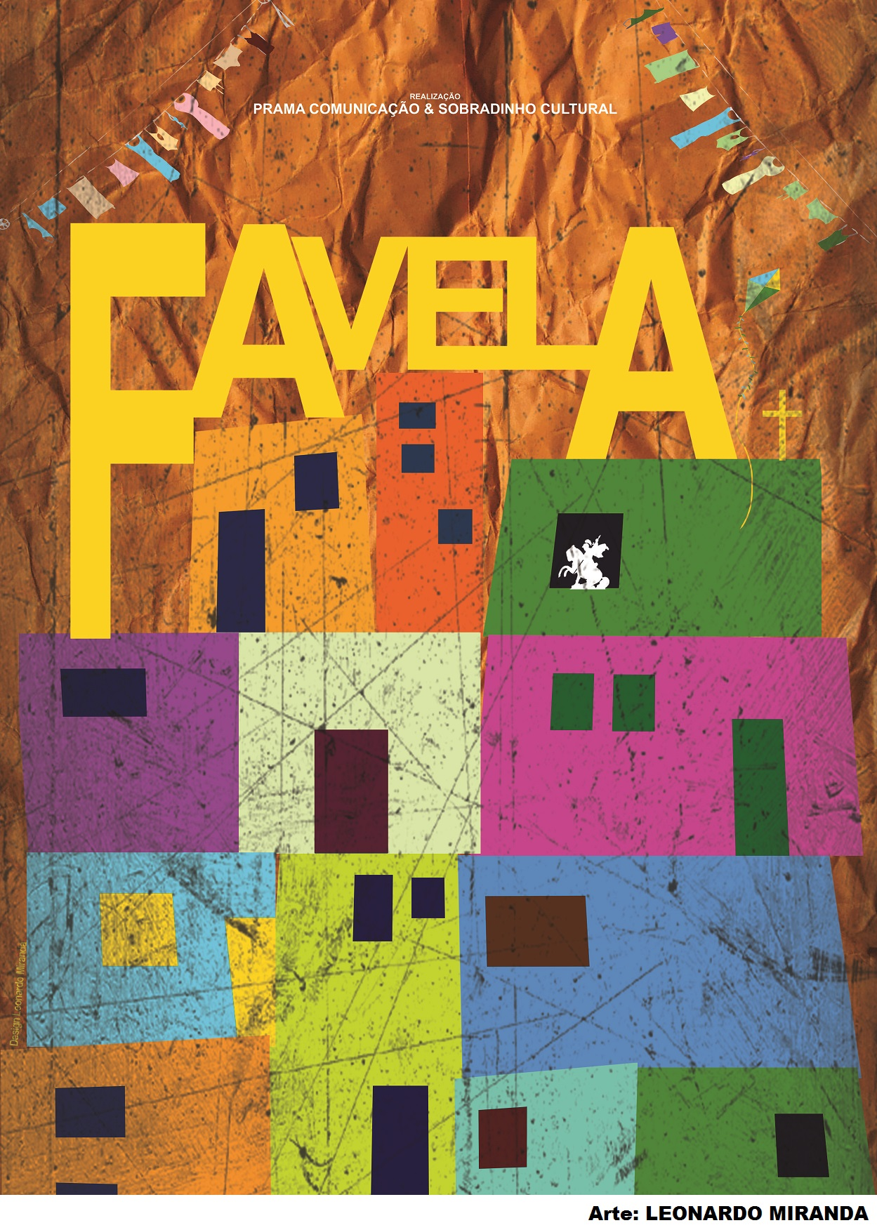 ART: LEONARDO MIRANDA